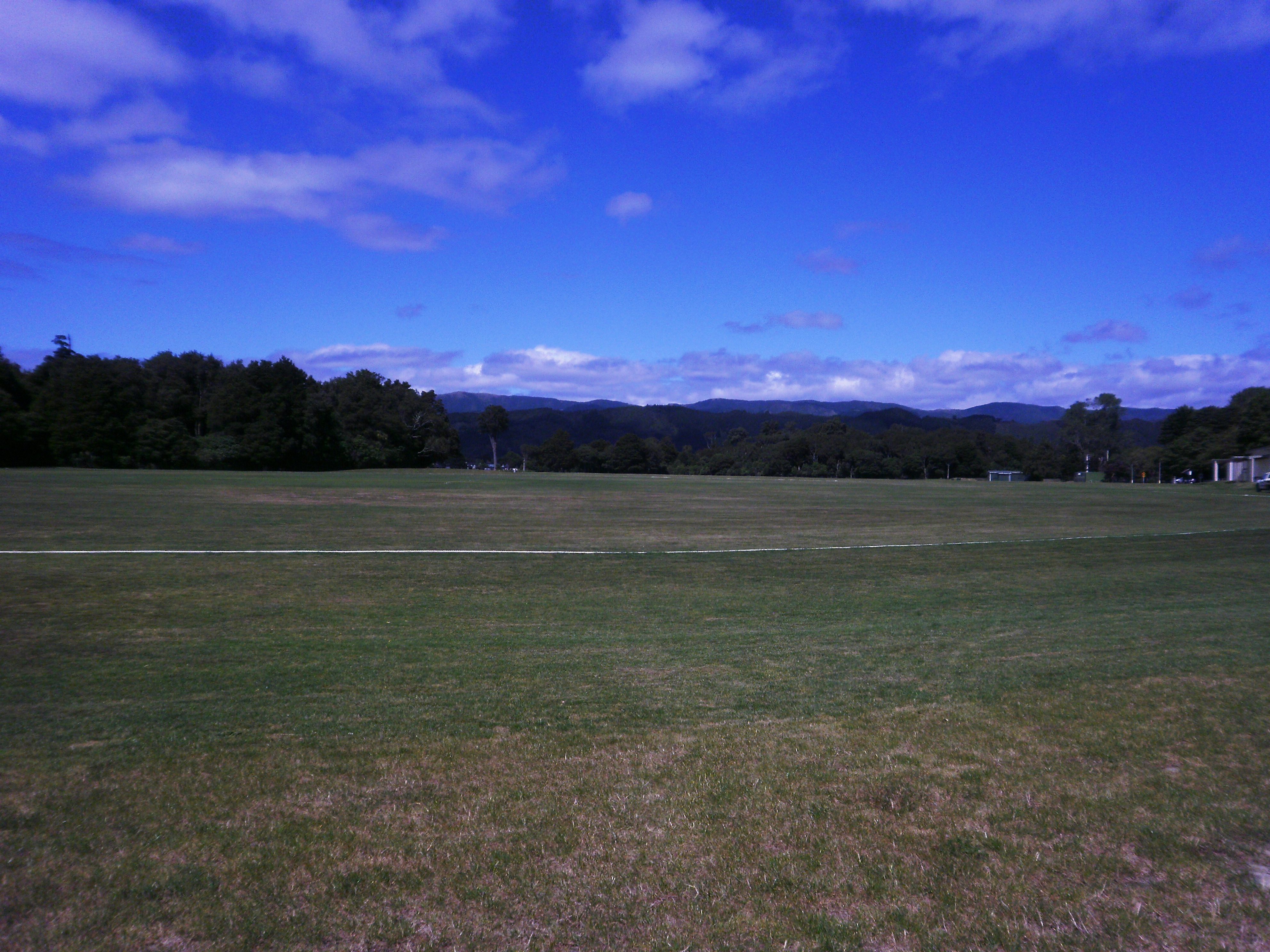 View across sports fields at Trentham Memorial Park, Upper Hutt, New Zealand